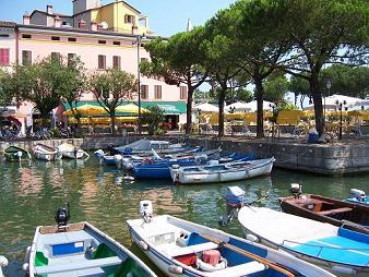 Originally published by Utente:Marius on it.wiki; his own photo, released into public domain.